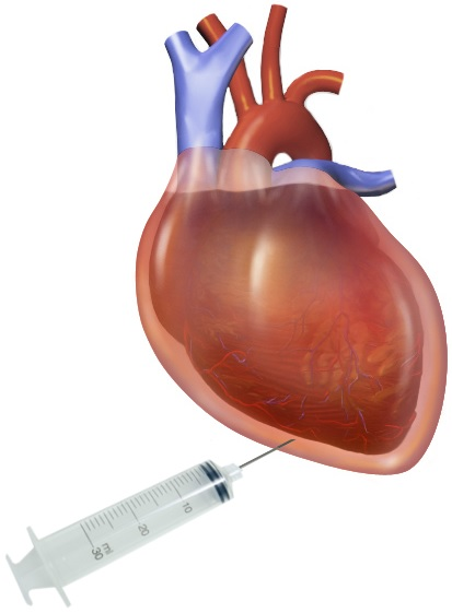 Pericardiocentesis, adapted from an original image by Wikimedia Commons user BruceBlaus (Blausen Medical)